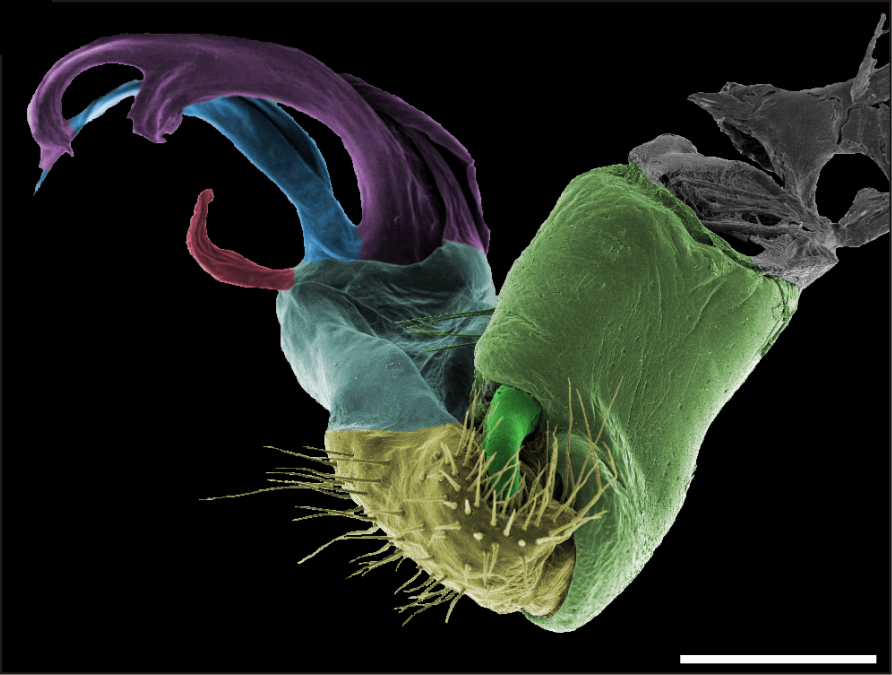 Left male gonopod of Oxidus gracilis. Mesal view, anterior to the left. False color scanning electron micrograph. Pale green, gonocoxa; Green, solenomerite; Yellow, prefemur; Pale blue, base of the telopodite; Red, tibiotarsus; Blue, femoral process; Violet, solenophore. Scale bar: 200 μm (0.2 mm or approx. 1/127 in)